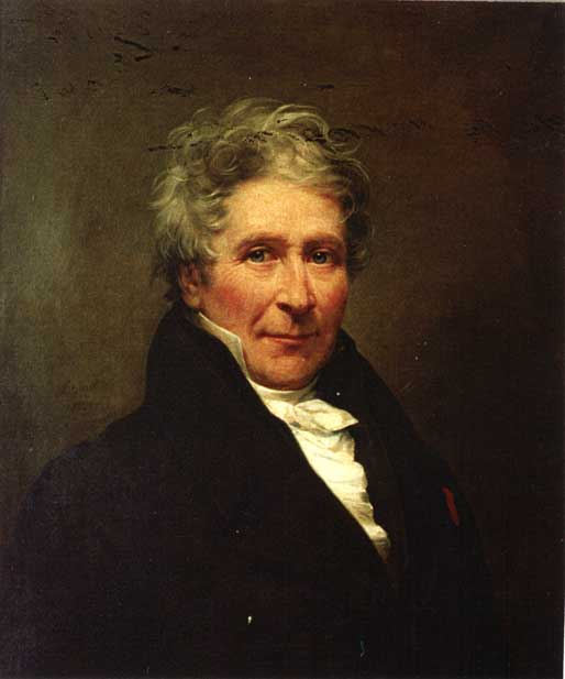 Portrait of French writer, historian and politician Antoine Jay (1770-1854)